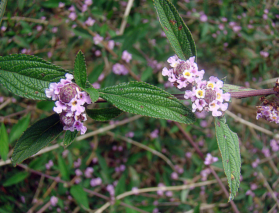 A neotropical species known as Bushy Lippia or Hierba Negra. Used as both a condiment and a migraine aid. Photo from garden near San Luis, Costa Rica. In context at